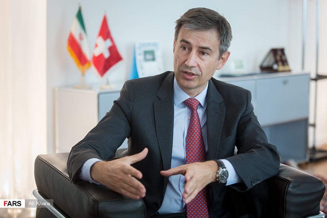 Ambassador Markus Leitner, Interview with FNA - 30 April 2018 main album